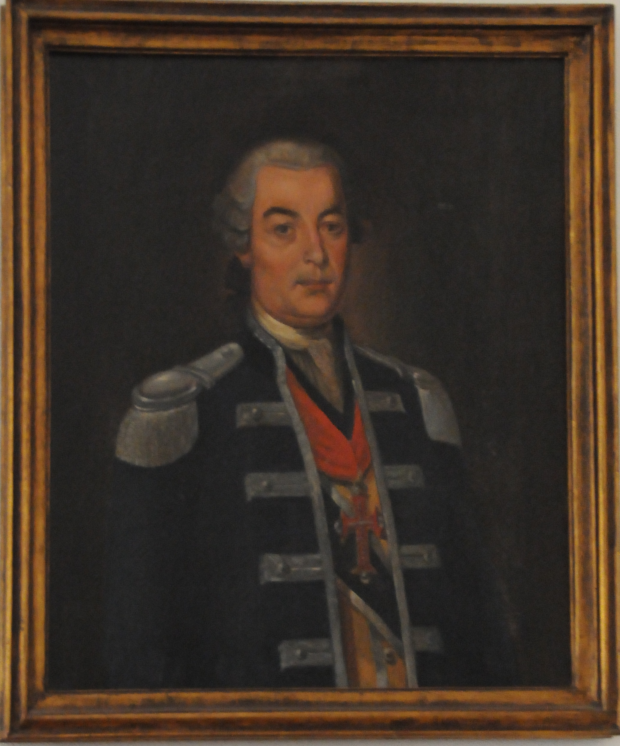 Portuguese architect